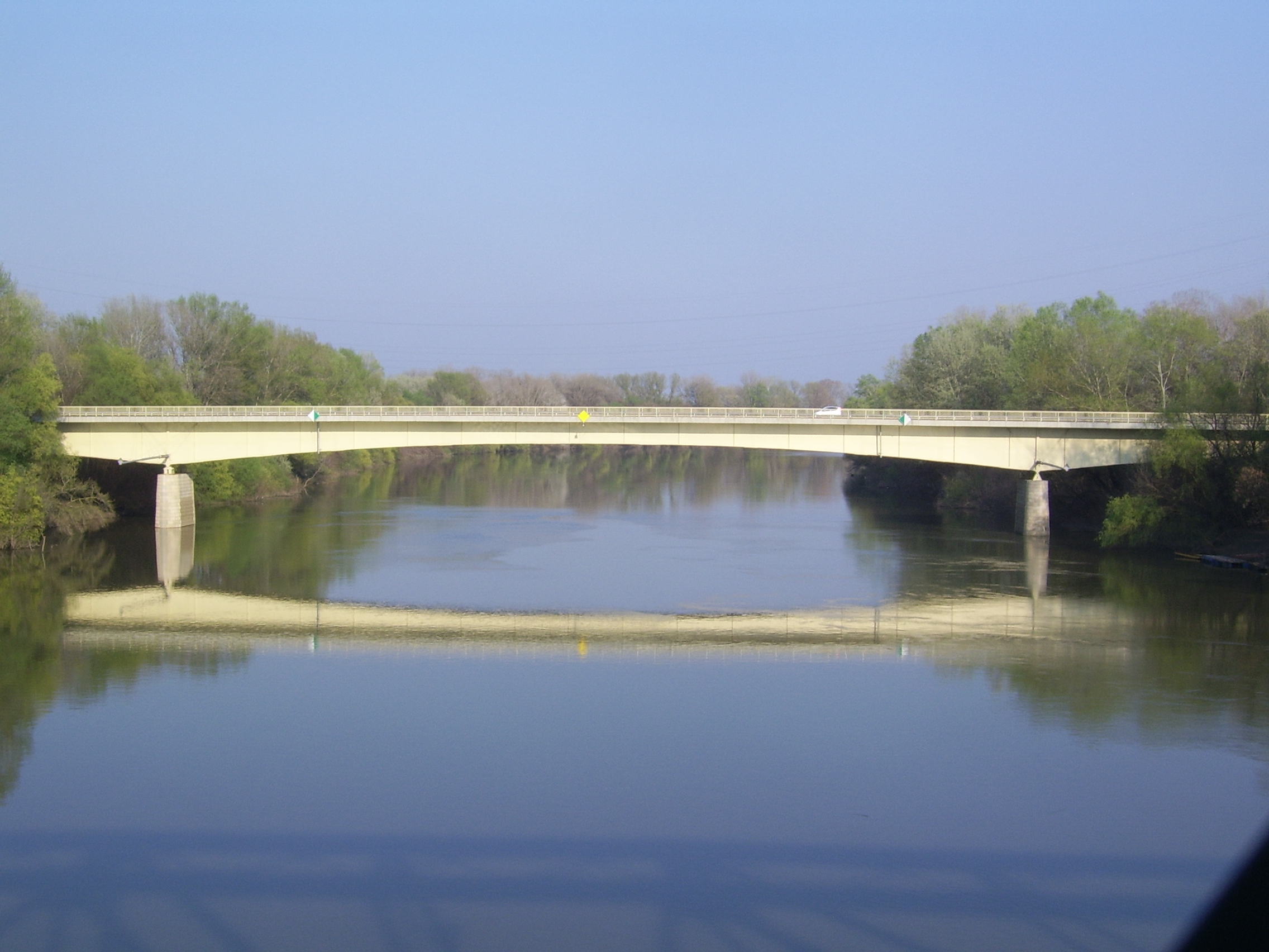 Bridge over the Tisza river, Algyő, Hungary